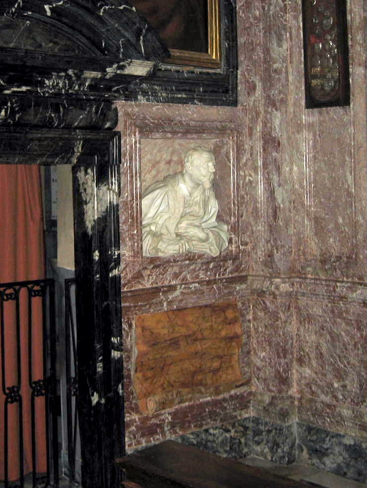 Giovanni Lorenzo Bernini – Bust of Gabriele Fonseca (1668-1675). Chiesa di San Lorenzo in Lucina, Roma.